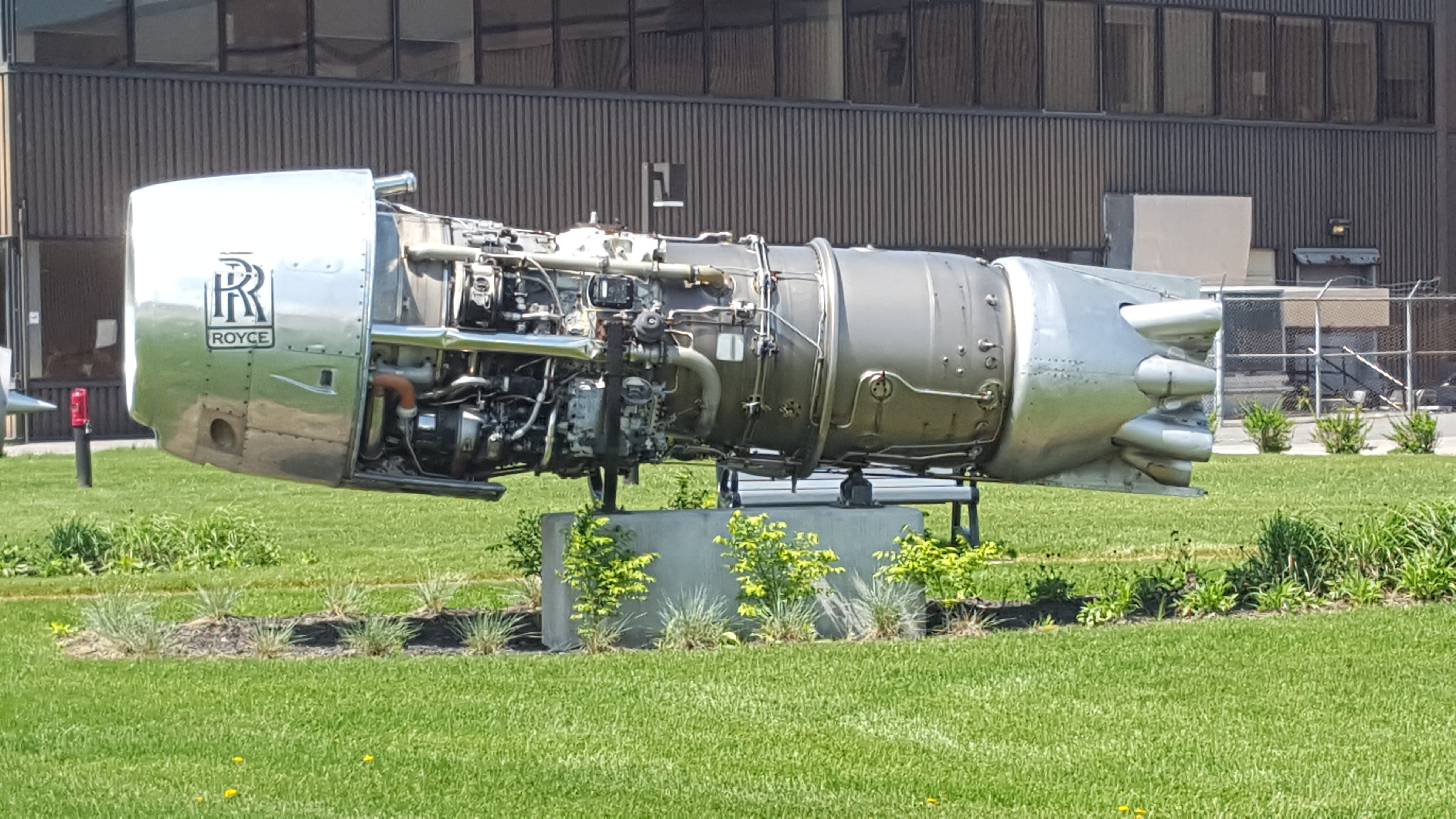 Rolls-Royce Conway turbofan engine on display at Lockheed Martin Commercial Engines Solutions in St-Laurent, QC, Canada.